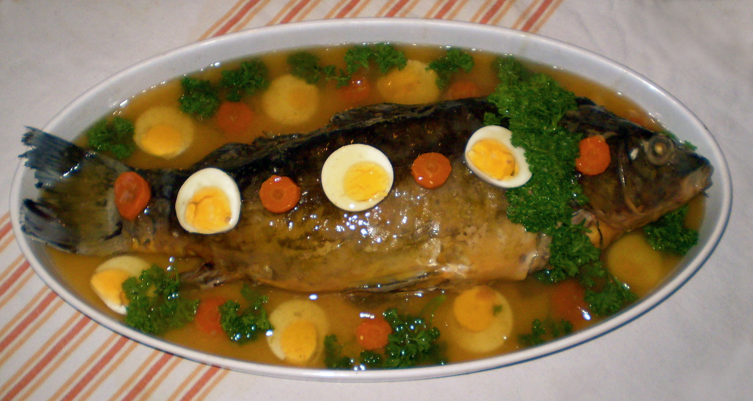 Gefilte fish: East European Jewish dish for Shabbat and holidays - original cooking method: a whole fish stuffed